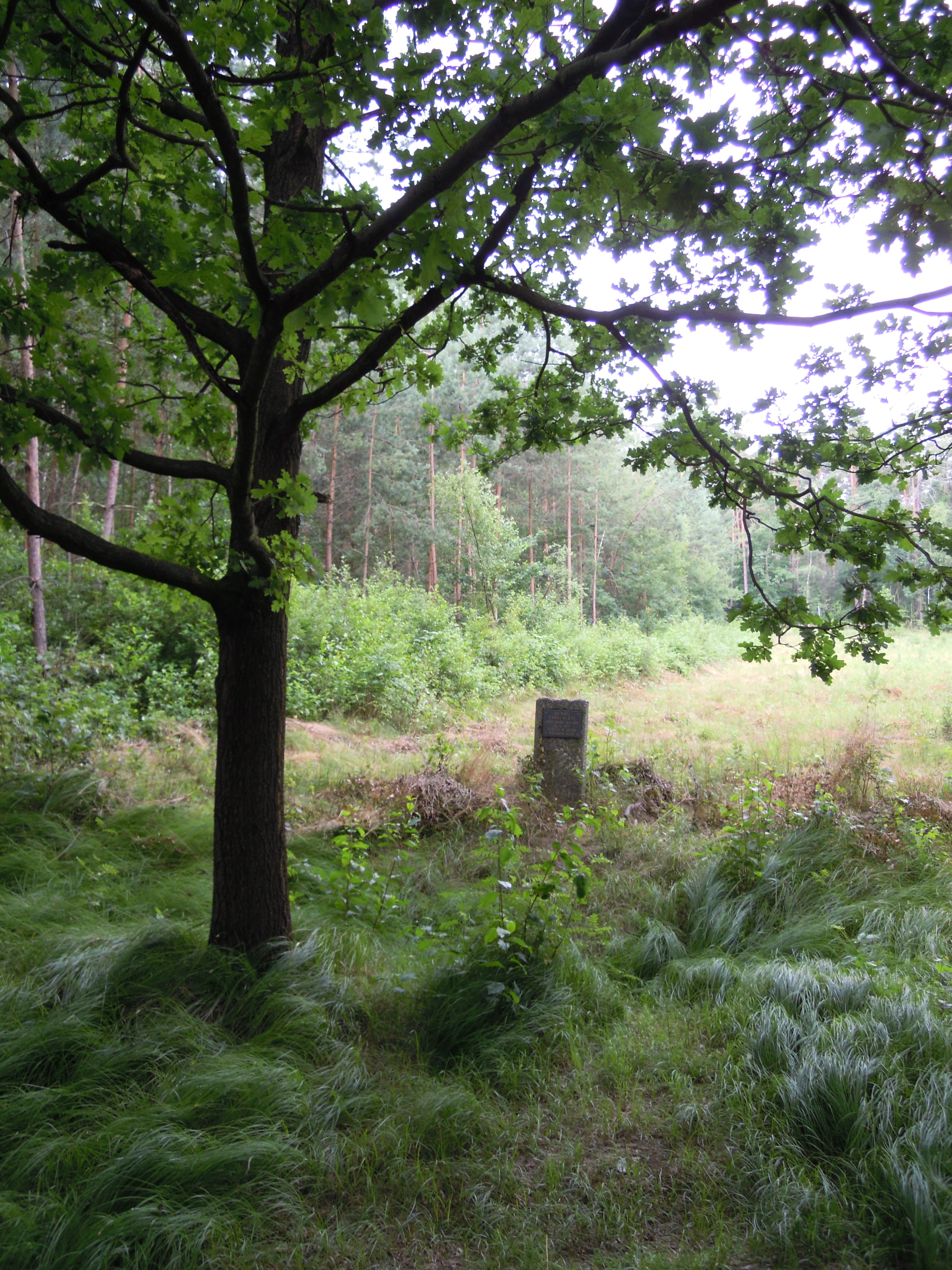 Letzter Hase, Plzeň - Bolevec. Commemorative plaque for Carl Klotz who shot his last hare at this place at the age of 81.